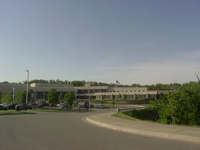 Turner High School, located in Kansas City, Kansas, in Unified School District 202 in the Turner District.